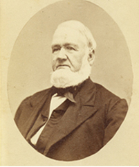 Samuel Williston was the founder of Williston Academy, now The Williston Northampton School.